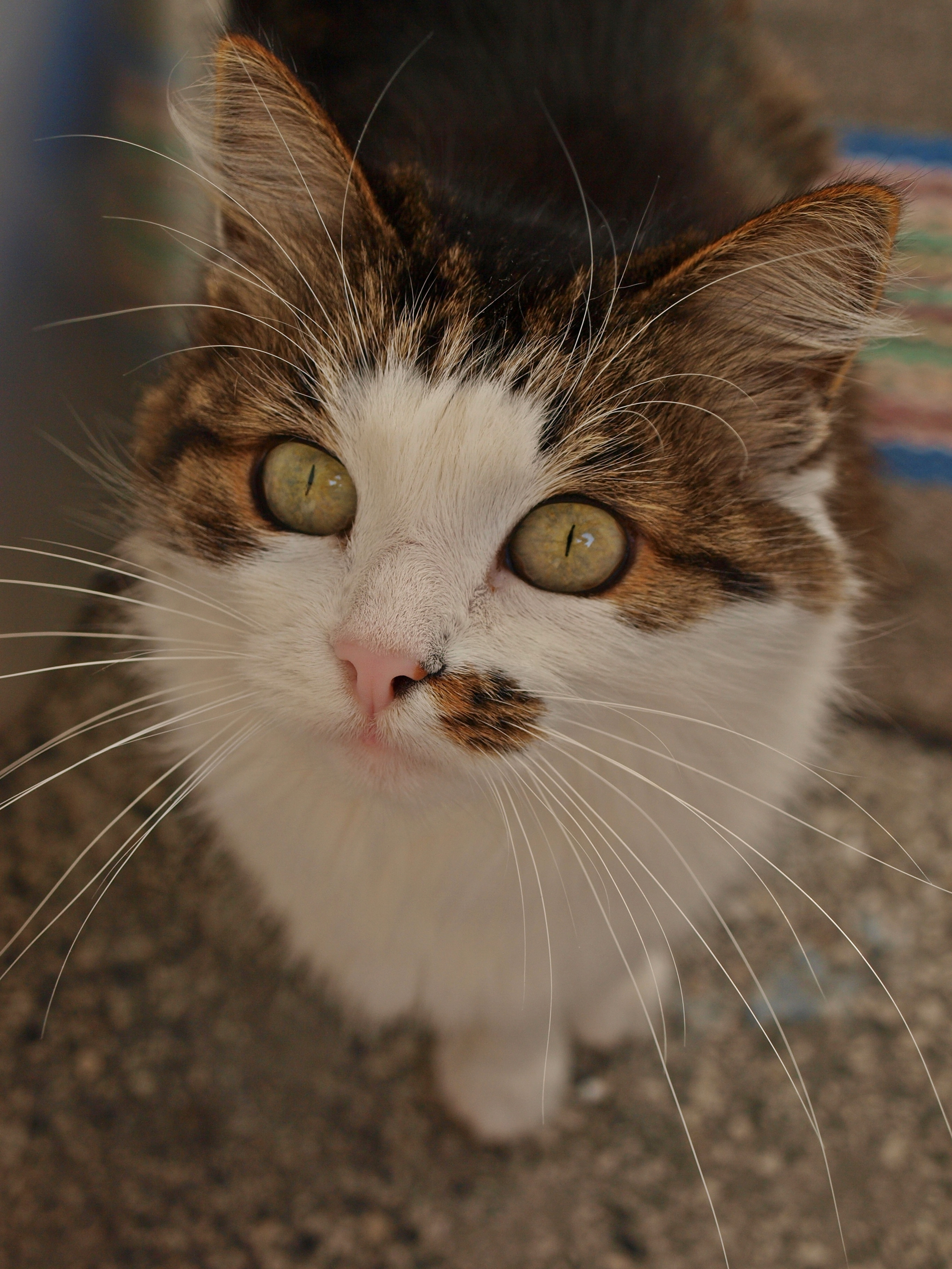 Close-shot of an adult female cat.